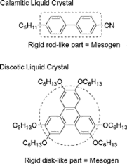 Examples of mesogenic structure in liquid crystals History of Image:Mesogen illustration.JPG 2008-03-26T21:14:19Z Keenan Pepper (Talk | contribs) (81 bytes) ( BadJPEG ) 2006-03-20T19:49:12Z 142.231.72.208 (Talk | contribs) 2004-11-24T02:56:15Z Chiral (Talk | contribs) ( Examples of mesogenic structure in liquid crystals)